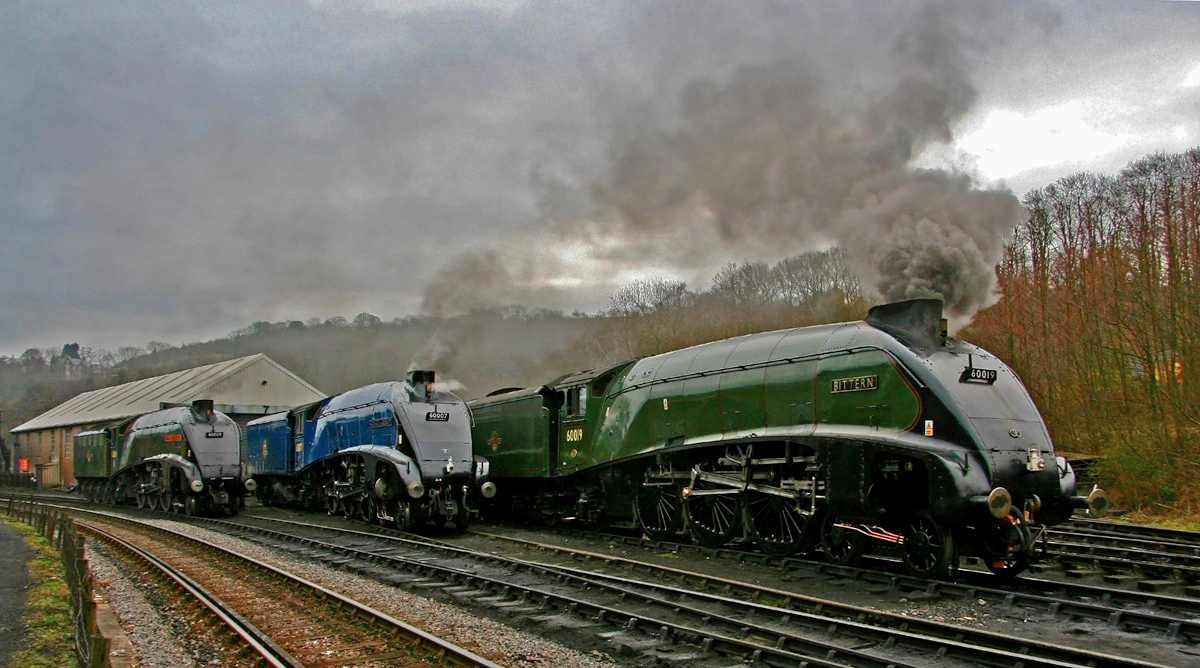 A rare gathering of three ex-LNER A4 locomotives at Grosmont, North Yorkshire Moors Railway, during the LNER Gala. Reminiscent of the 'Top Shed' scene of the 1950s, 60009 Union of South Africa, 60007 Sir Nigel Gresley, and 60019 Bittern line up alonsgide each other at 7:30am, as they are prepared for service.